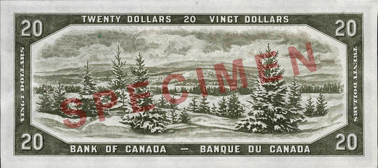 Canada 1954 Series $20 banknote, reverse, original "Devil's Head" printing. Image was engraved by Joseph Louis Black of ABN, and William Ford engraved the scene of the Laurentians based on a photograph from the Provincial Publicity Bureau of Quebec.